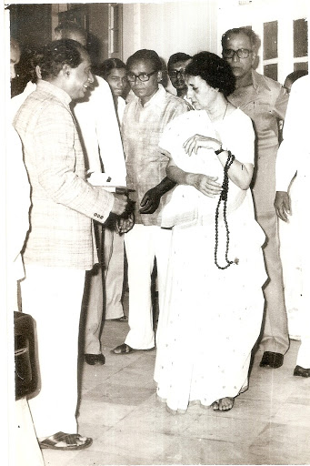 Original file of Gulabrao Patil and Indira Gandhi